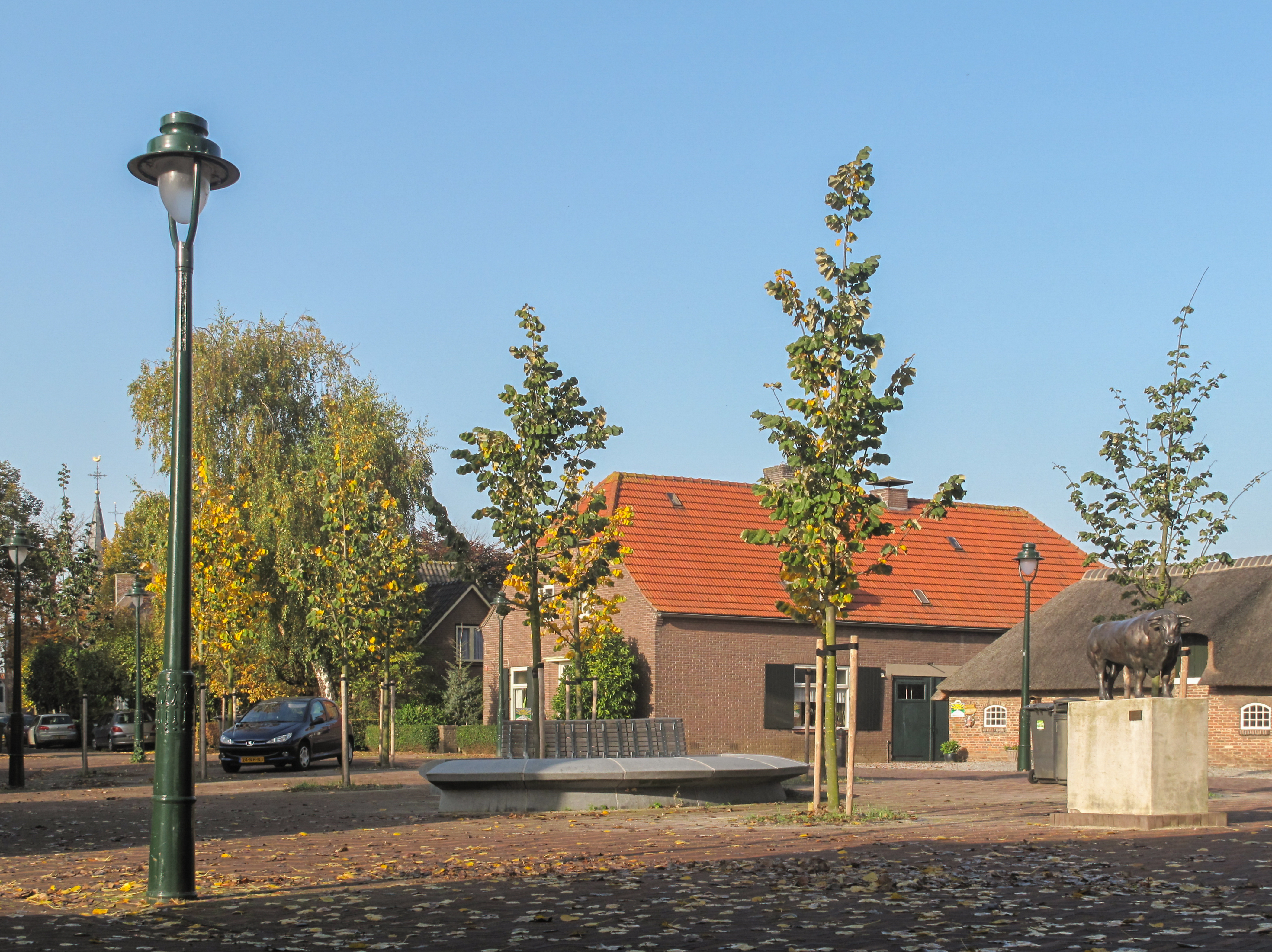 Bokhoven, view to a street: het Driekoningenplein